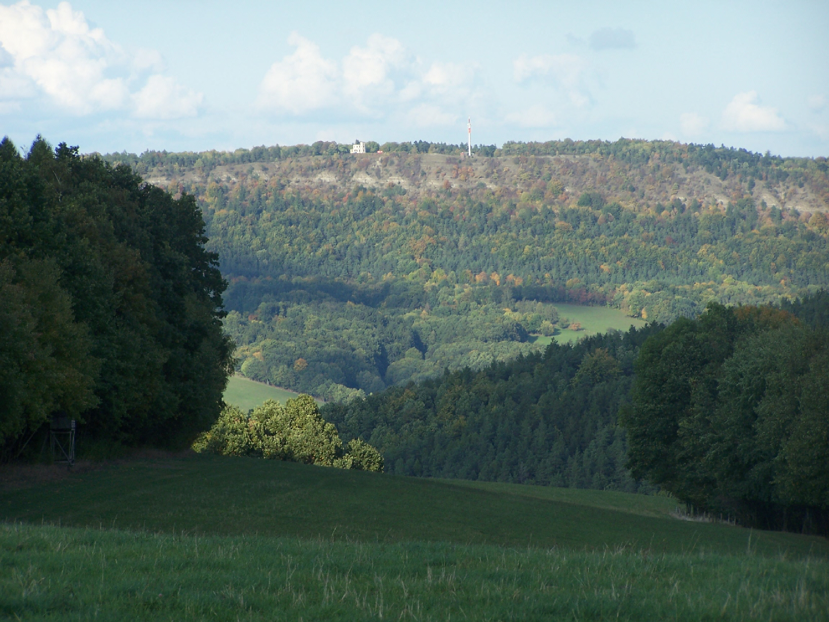 The Great Hoerselberg seen from viewpoint at the Kreuzweg.